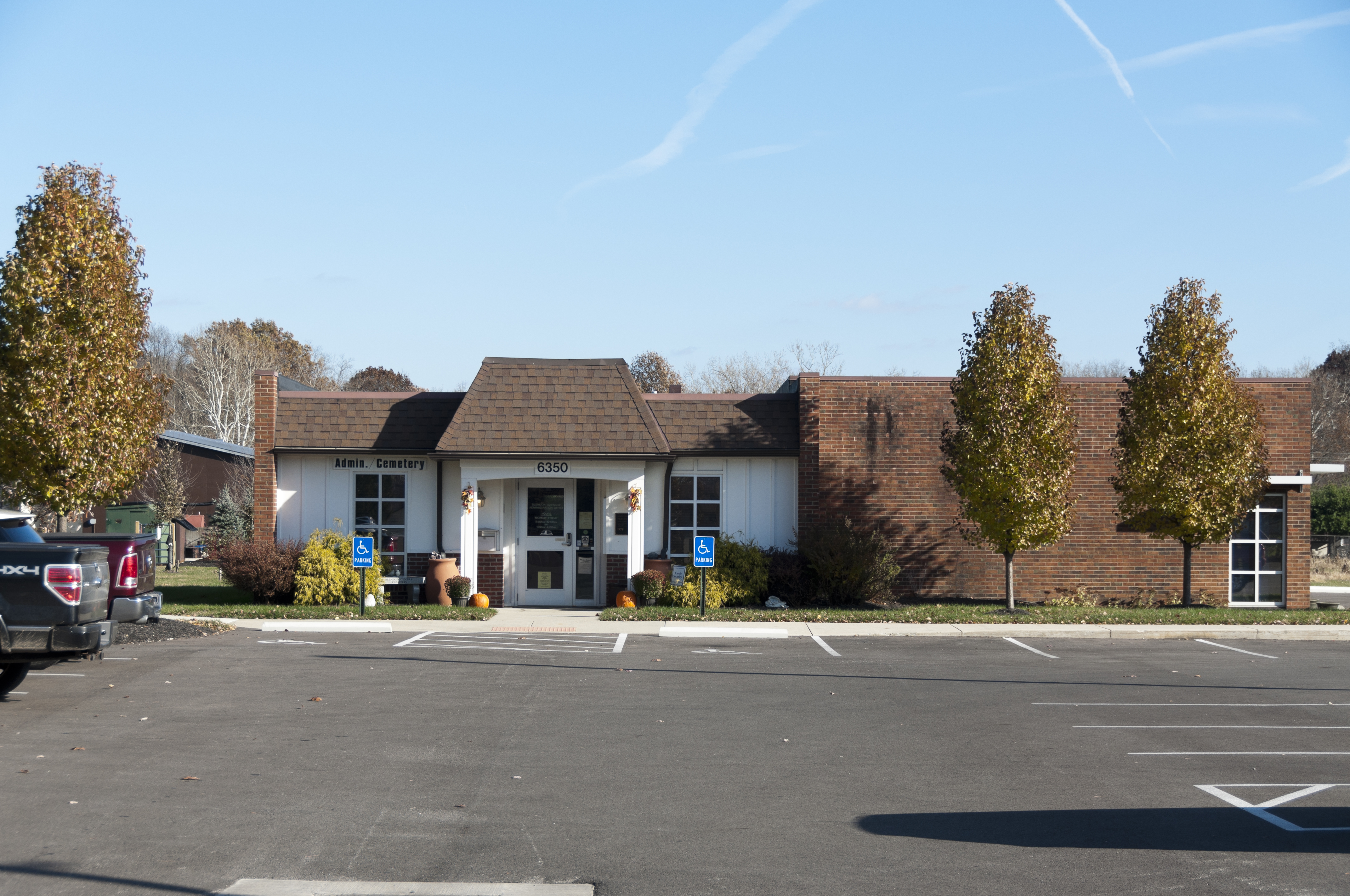 The Blendon Township administration building. It is also the administration building for the Blendon Central Cemetery.